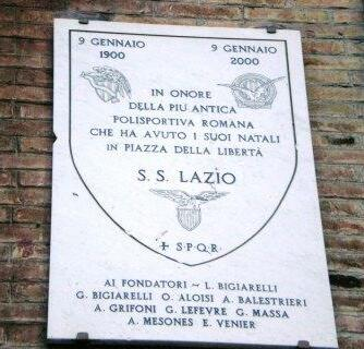 Plaque commemorating the 100th anniversary of the foundation of Società Sportiva Lazio in Rome, Piazza della Libertà. The inscription reads: "9 January 1900 - 9 January 2000. In honour of the oldest multisports club of Rome, which was founded in Piazza della Libertà - S.S. LAZIO"